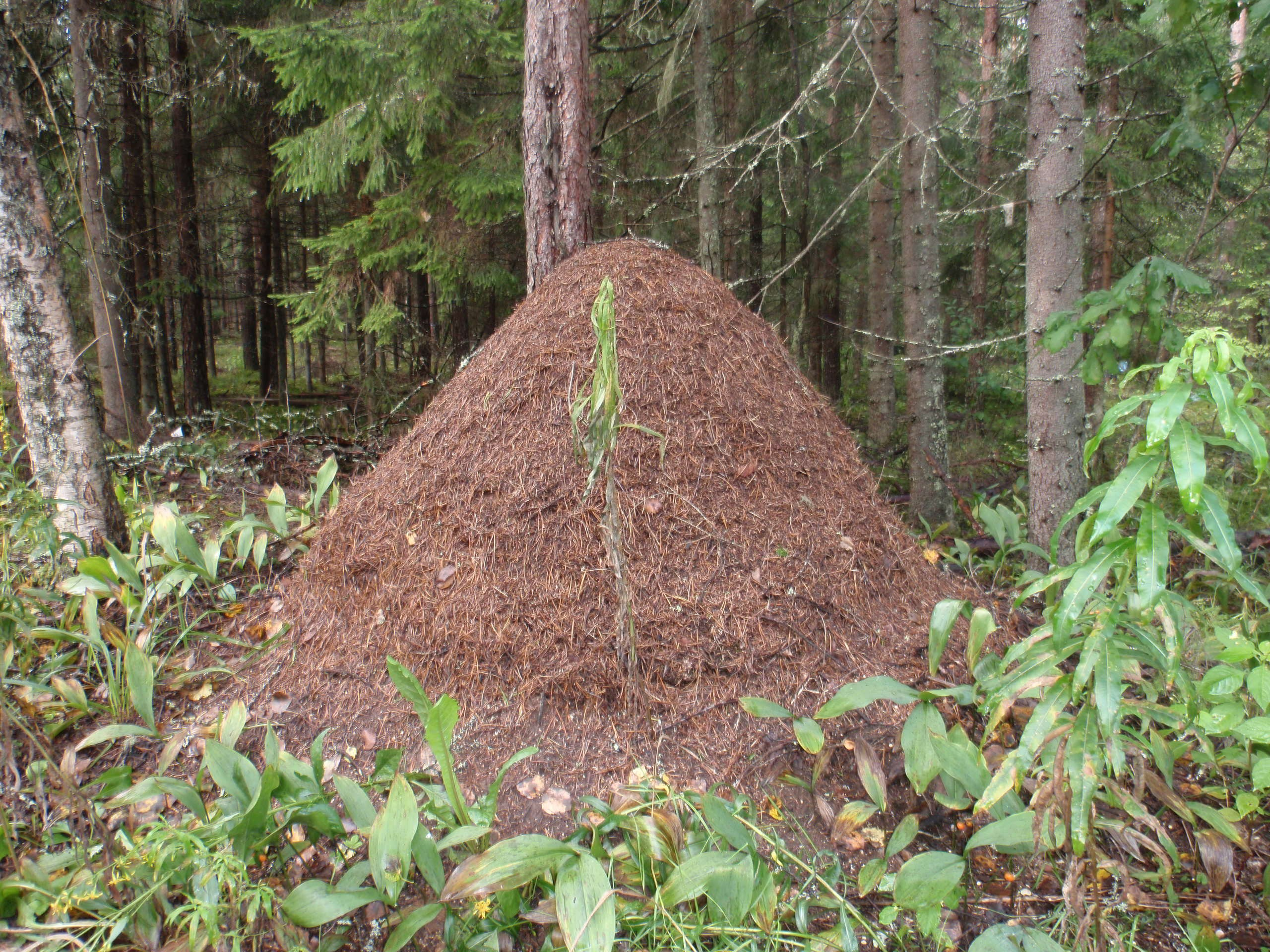 Wood ant (Formica aquilonia ) mound